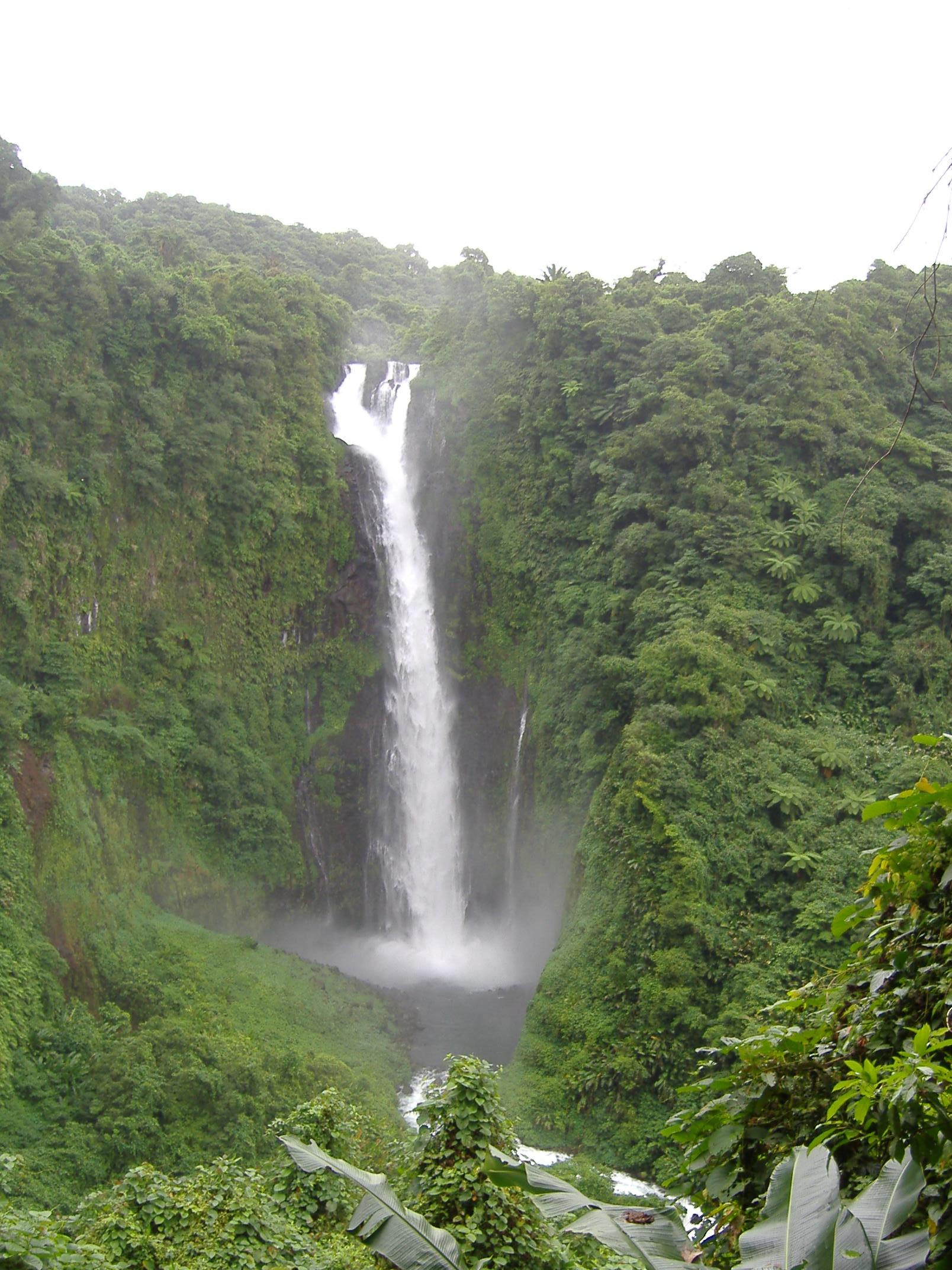 Siri Falls, a 120 metre waterfall located on Gaua Island, Vanuatu